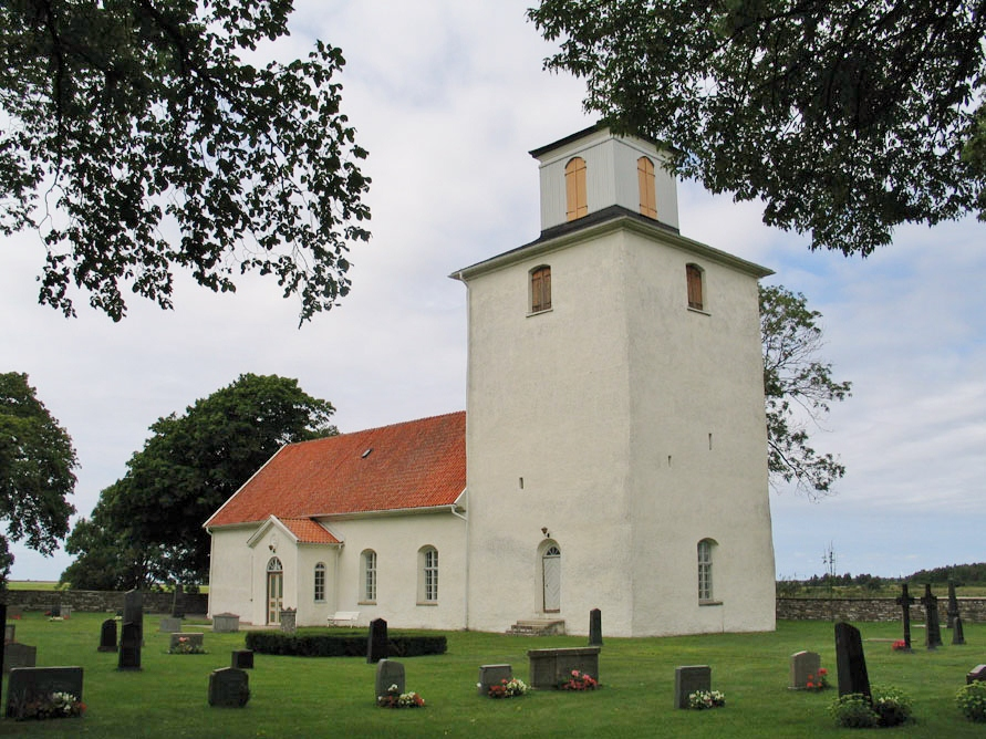 Ås Church, Öland.Exterior